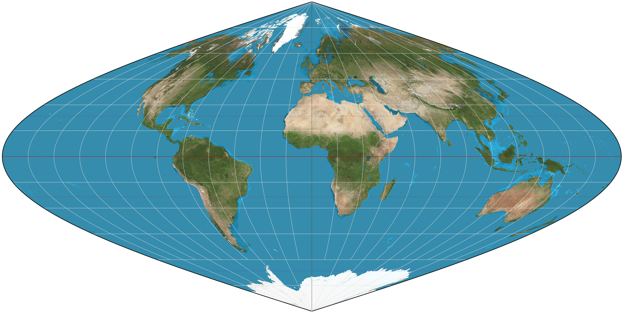 The world on sinusoidal projection. 15° graticule. Imagery is a derivative of NASA’s Blue Marble summer month composite with oceans lightened to enhance legibility and contrast. Image created with the Geocart map projection software.